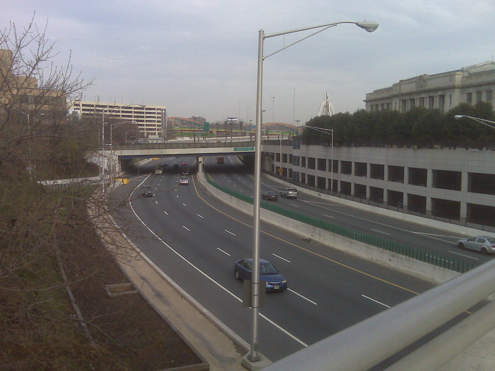 A view of Interstate 83's Jones Falls Expressway from the bridge of Saint Paul Street.